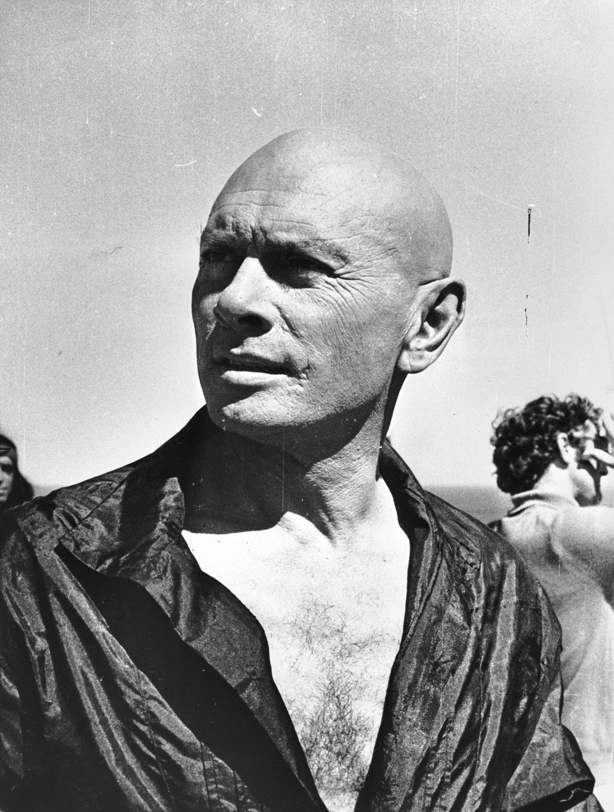 Yul Brenner on the set of the film The Light at the Edge of the World in Spain.